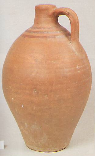 Cántaro of Anguita (Guadalajara, Spain). Natacha Seseña Legacy Fund.